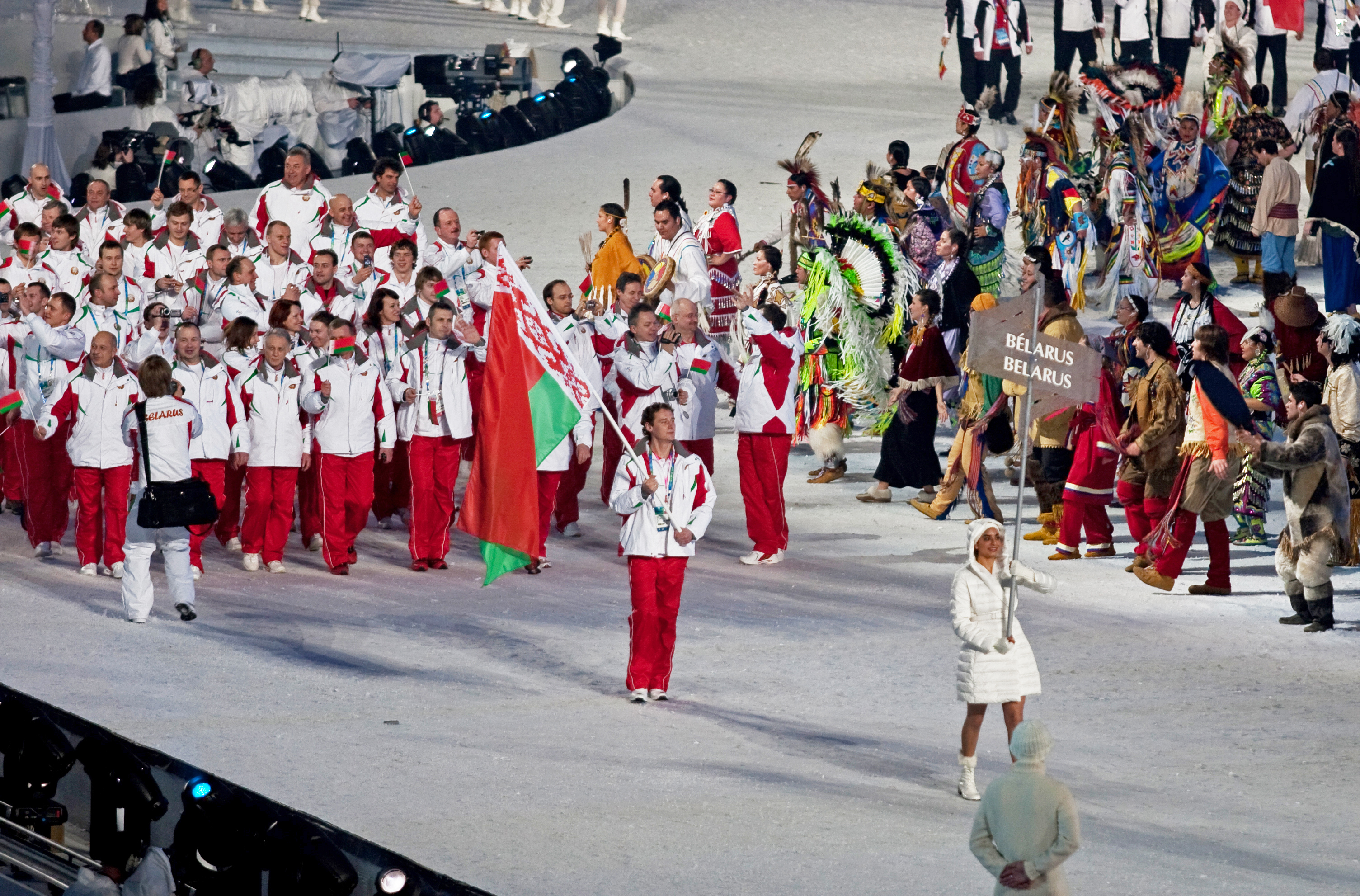 The athletes from Belarus entering the stadium at the opening ceremonies of the 2010 Winter Olympics